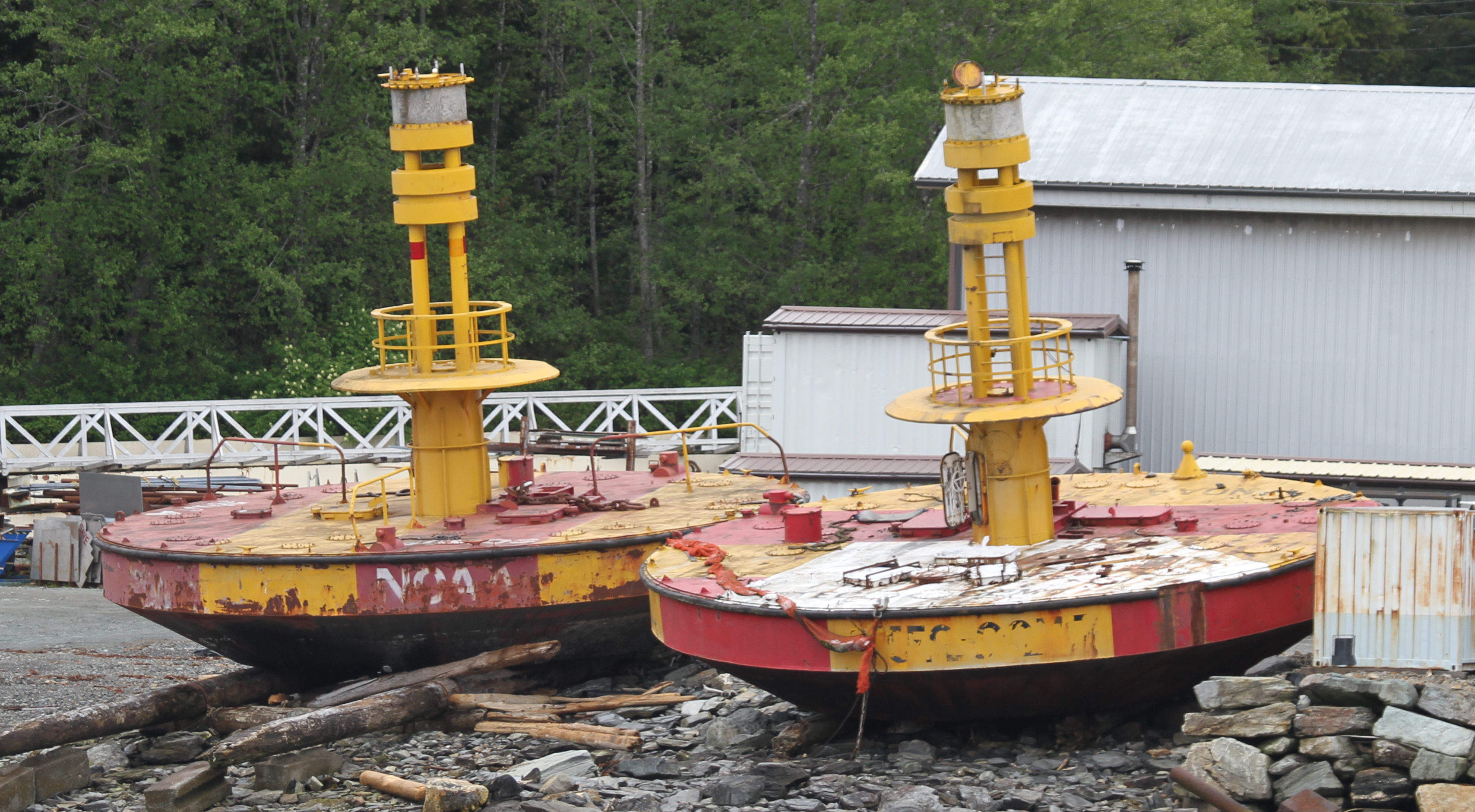 12-meter discus buoys at Ketchikan, Alaska in 2012